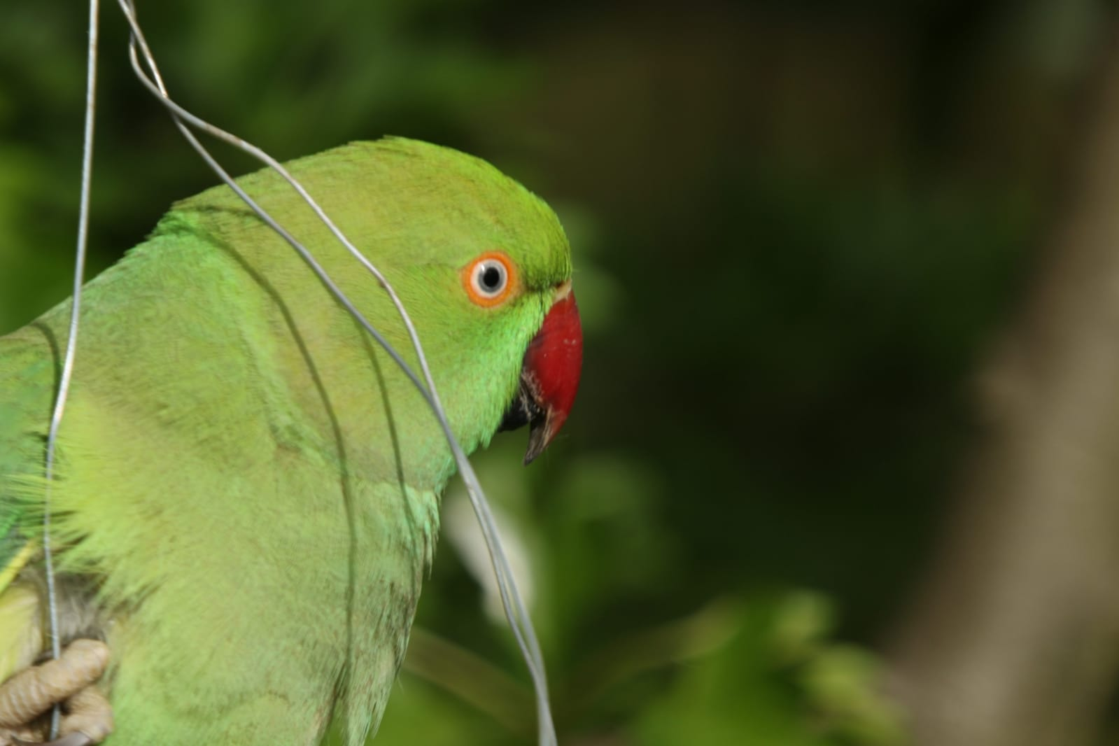 A group or pandemonium of rose-ringed parakeet have taken up residence inside a dead tree just near the acorn sculpture by the lake.